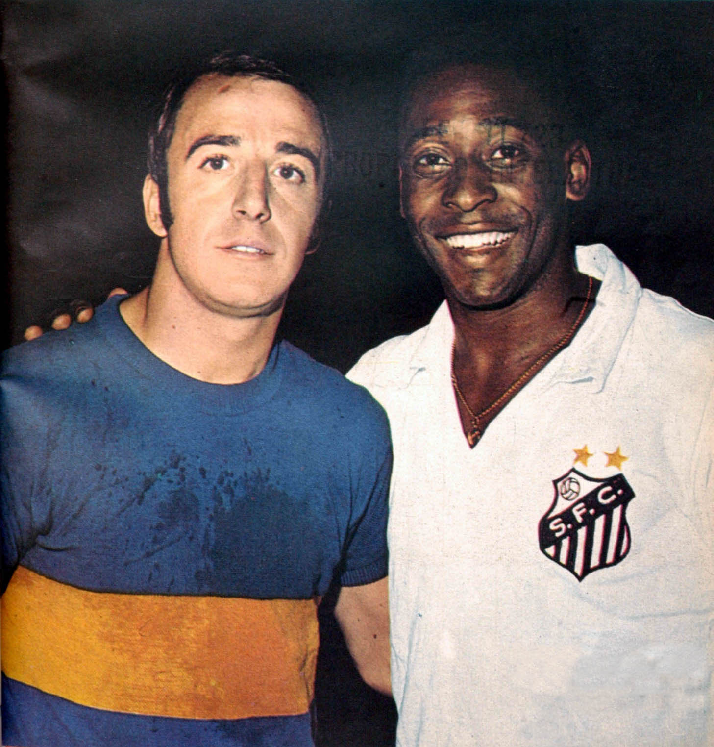 Brazilian footballer Pelé posing with midfielder Norberto Madurga, before a match between Santos FC and Boca Juniors in Mar del Plata, Argentina.